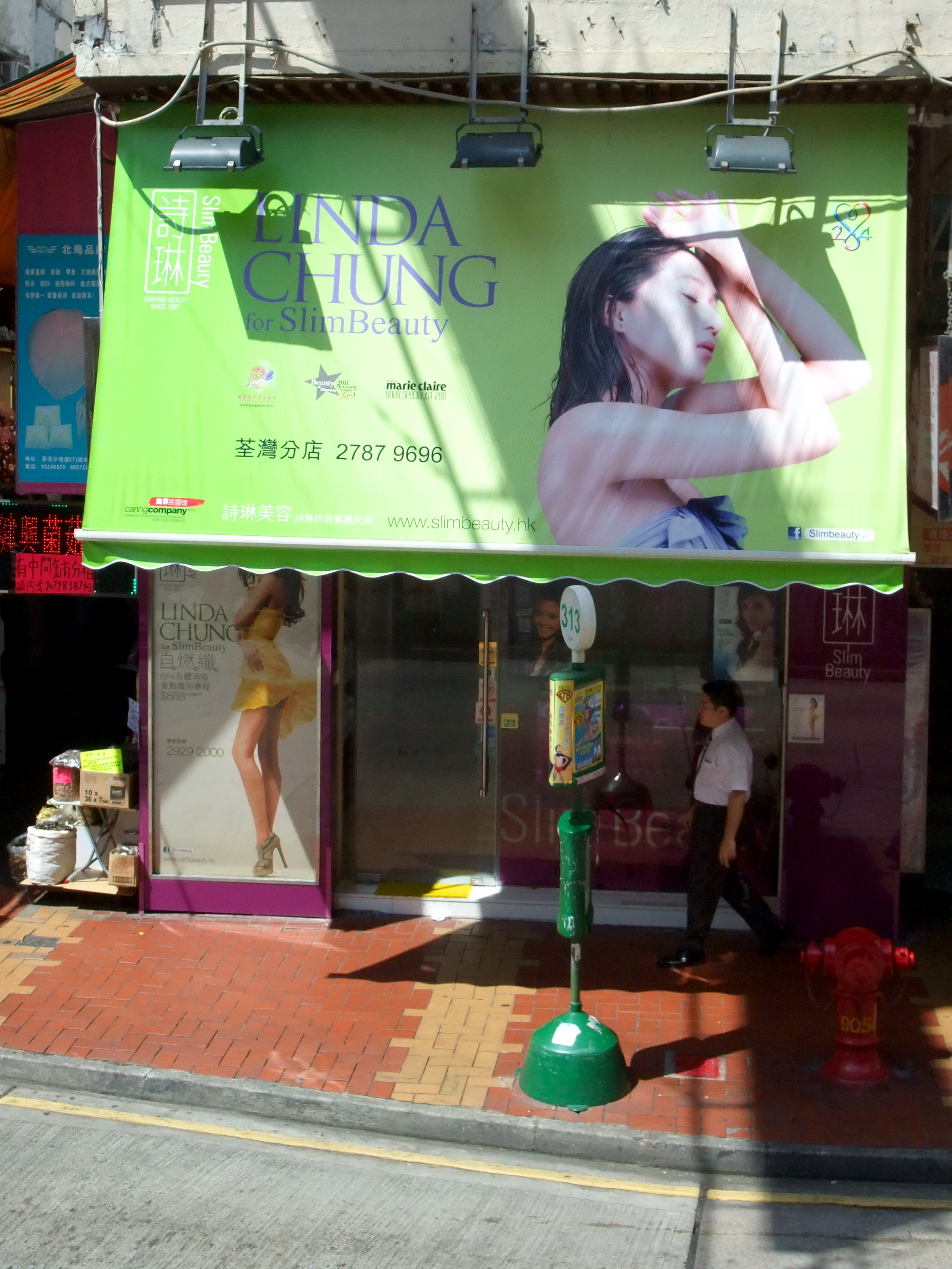 SlimBeauty (Tsuen Wan, New Territories, Hong Kong)